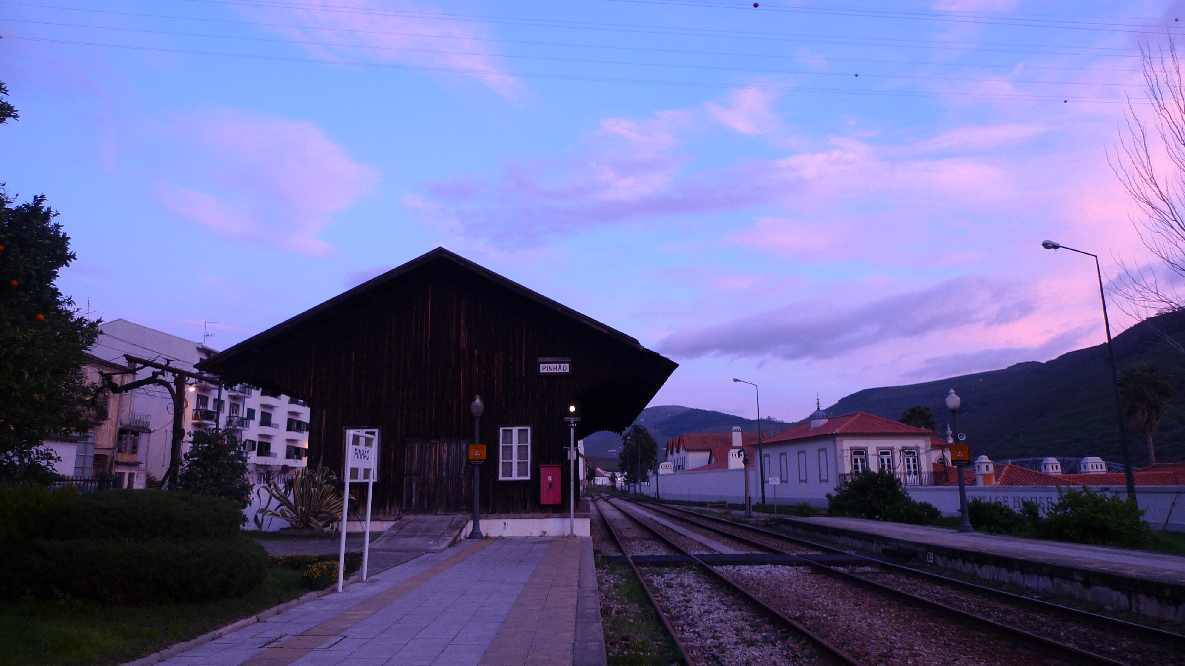 Pinhão train station, Portugal